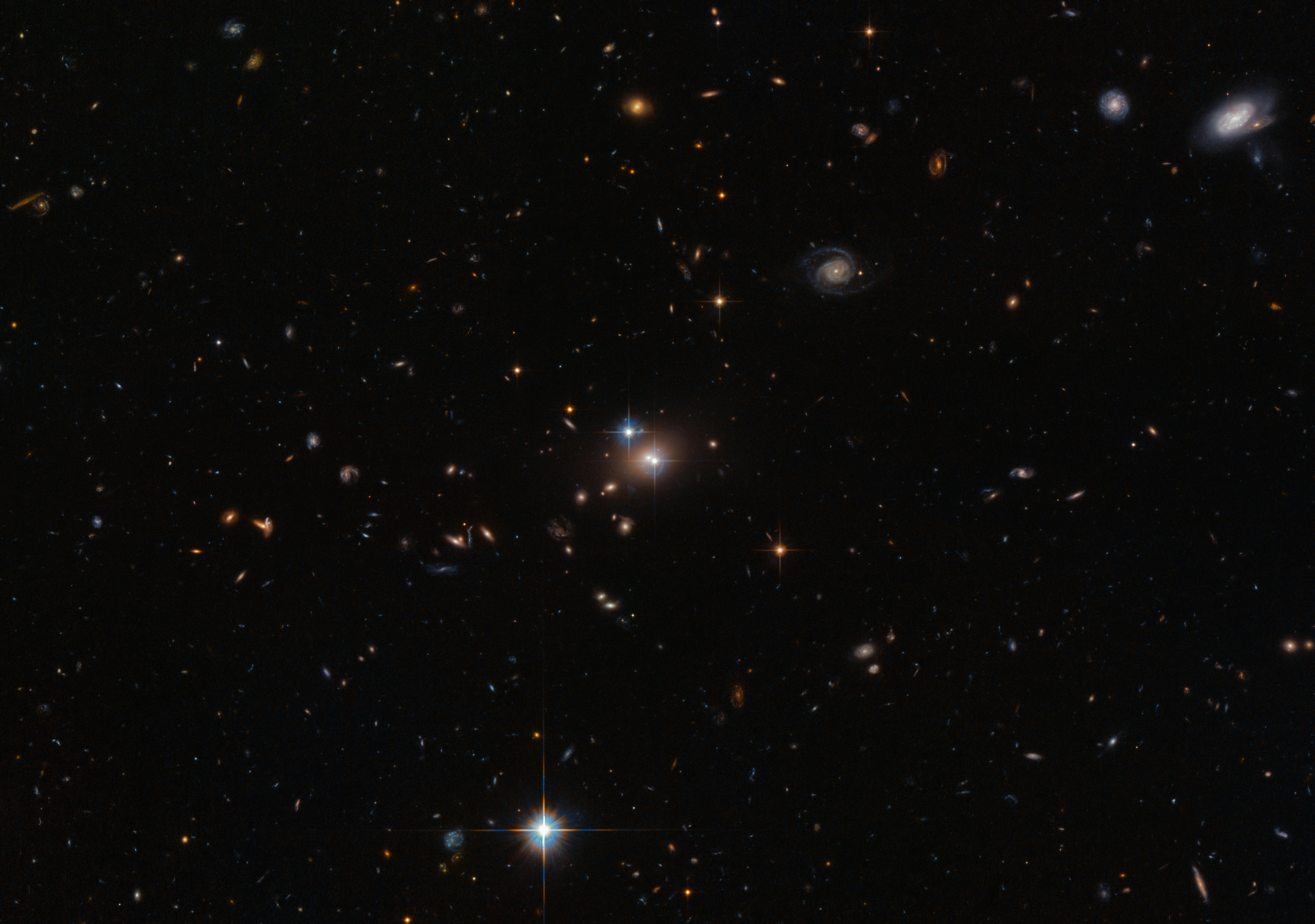 In this new Hubble image two objects are clearly visible, shining brightly. When they were first discovered in 1979, they were thought to be separate objects — however, astronomers soon realised that these twins are a little too identical! They are close together, lie at the same distance from us, and have surprisingly similar properties. The reason they are so similar is not some bizarre coincidence; they are in fact the same object. These cosmic doppelgangers make up a double quasar known as QSO 0957+561, also known as the "Twin Quasar", which lies just under 9 billion light-years from Earth. Quasars are the intensely powerful centres of distant galaxies. So, why are we seeing this quasar twice? Some 4 billion light-years from Earth — and directly in our line of sight — is the huge galaxy YGKOW G1. This galaxy was the first ever observed gravitational lens, an object with a mass so great that it can bend the light from objects lying behind it. This phenomenon not only allows us to see objects that would otherwise be too remote, in cases like this it also allows us to see them twice over. Along with the cluster of galaxies in which it resides, YGKOW G1 exerts an enormous gravitational force. This doesn't just affect the galaxy's shape, the stars that it forms, and the objects around it — it affects the very space it sits in, warping and bending the environment and producing bizarre effects, such as this quasar double image. This observation of gravitational lensing, the first of its kind, meant more than just the discovery of an impressive optical illusion allowing telescopes like Hubble to effectively see behind an intervening galaxy. It was evidence for Einstein's theory of general relativity. This theory had identified gravitational lensing as one of its only observable effects, but until this observation no such lensing had been observed since the idea was first mooted in 1936.